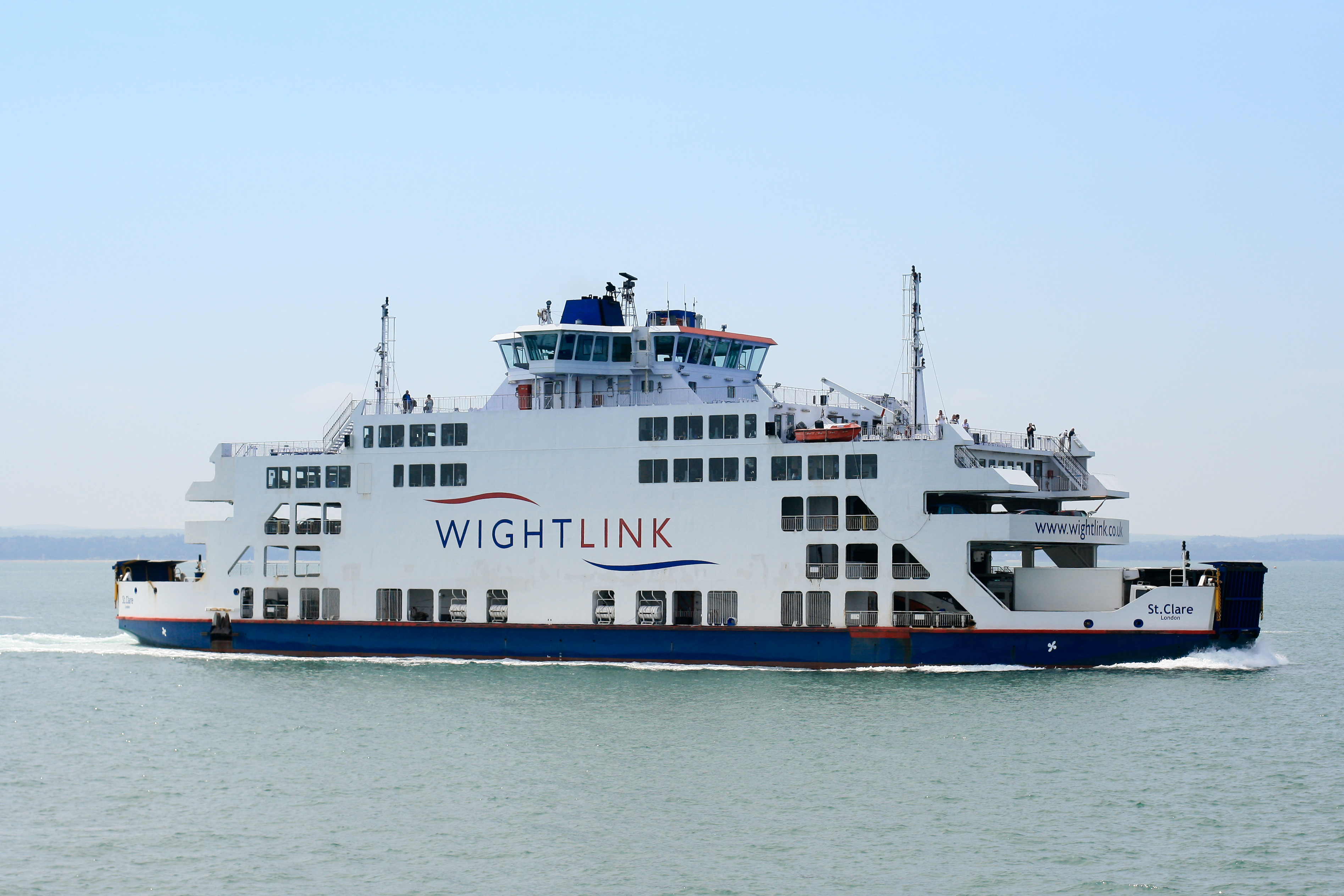 Isle of Wight Wightlink car ferry St Clare inbound to Portsmouth Harbour from Fishbourne on the Isle of Wight, UK. Wikipedia editors are reminded that the copyright remains with the photographer, and that the terms of the Creative Commons (CC), Attribution (BY), Share Alike (SA) CC-BY-SA-3.0 that allow editors to reuse this image apply to Wikipedia editors also, as they do to other re-users of this image. Breaches of the licence terms are not only unlawful, but are also antisocial, in that breaches discourage photographers from making their images freely available to everyone without payment. Wikipedia re-users are also reminded of the license terms that derivatives of this image should not imply that the adaptation is endorsed or approved by the author or copyright holder. Neither should derivatives be presented as the creation of the author or copyright holder, while clearly stating that the adaptation is a derivative of the original. Attribution online should be in this format Brian Burnell. On the printed page, a simpler form is acceptable - example: "Image: Brian Burnell".